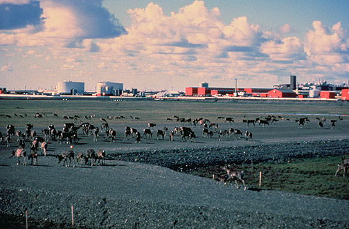 WO4441 Prudhoe Bay, Alaska Wetlands; Resource management; Alaska; Contributors DIVISION OF PUBLIC AFFAIRS Item ID WO-Wetland-4441 Rights Public domain